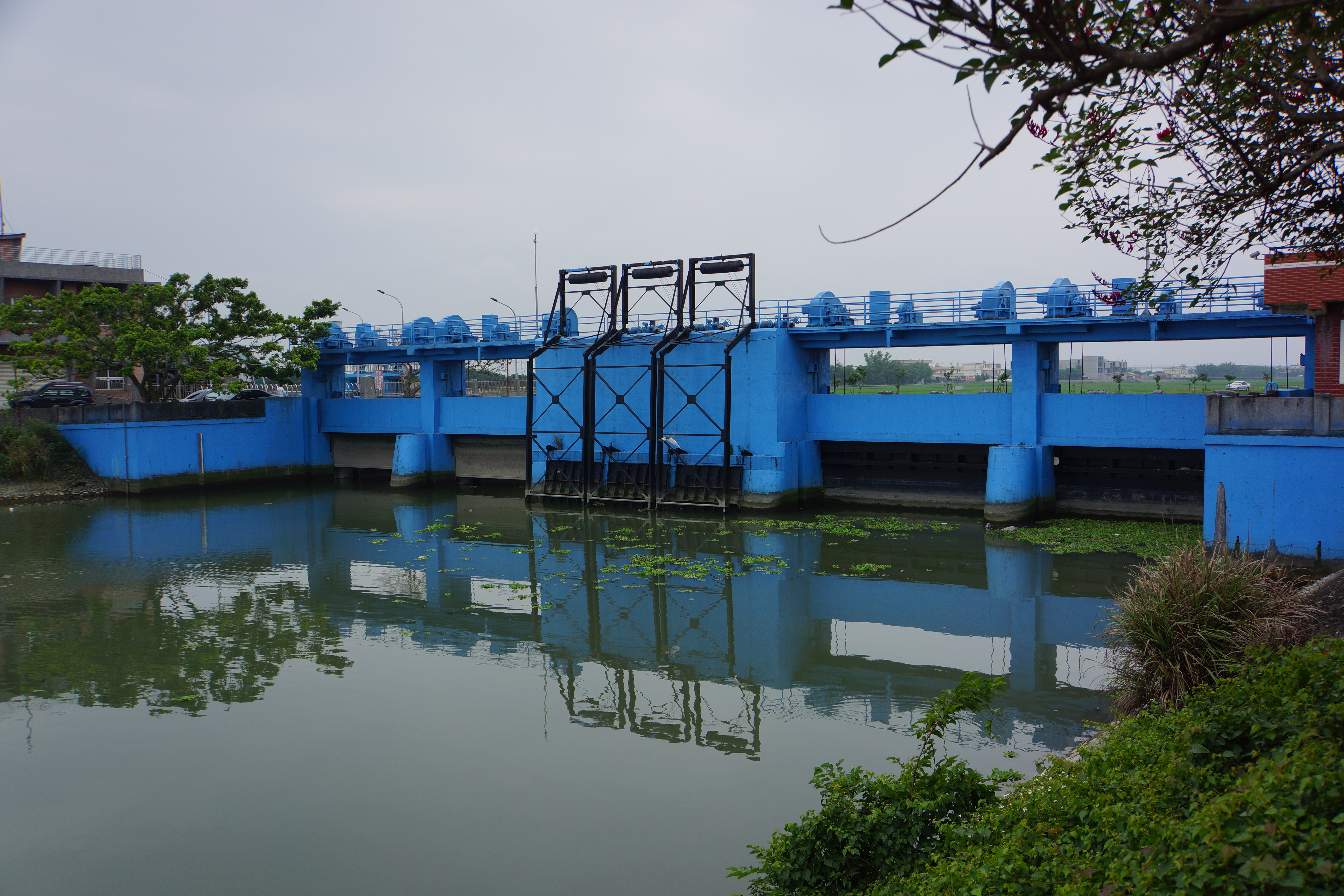 Sluice Gate of Meifu Drainage Canal 美福排水幹線閘門